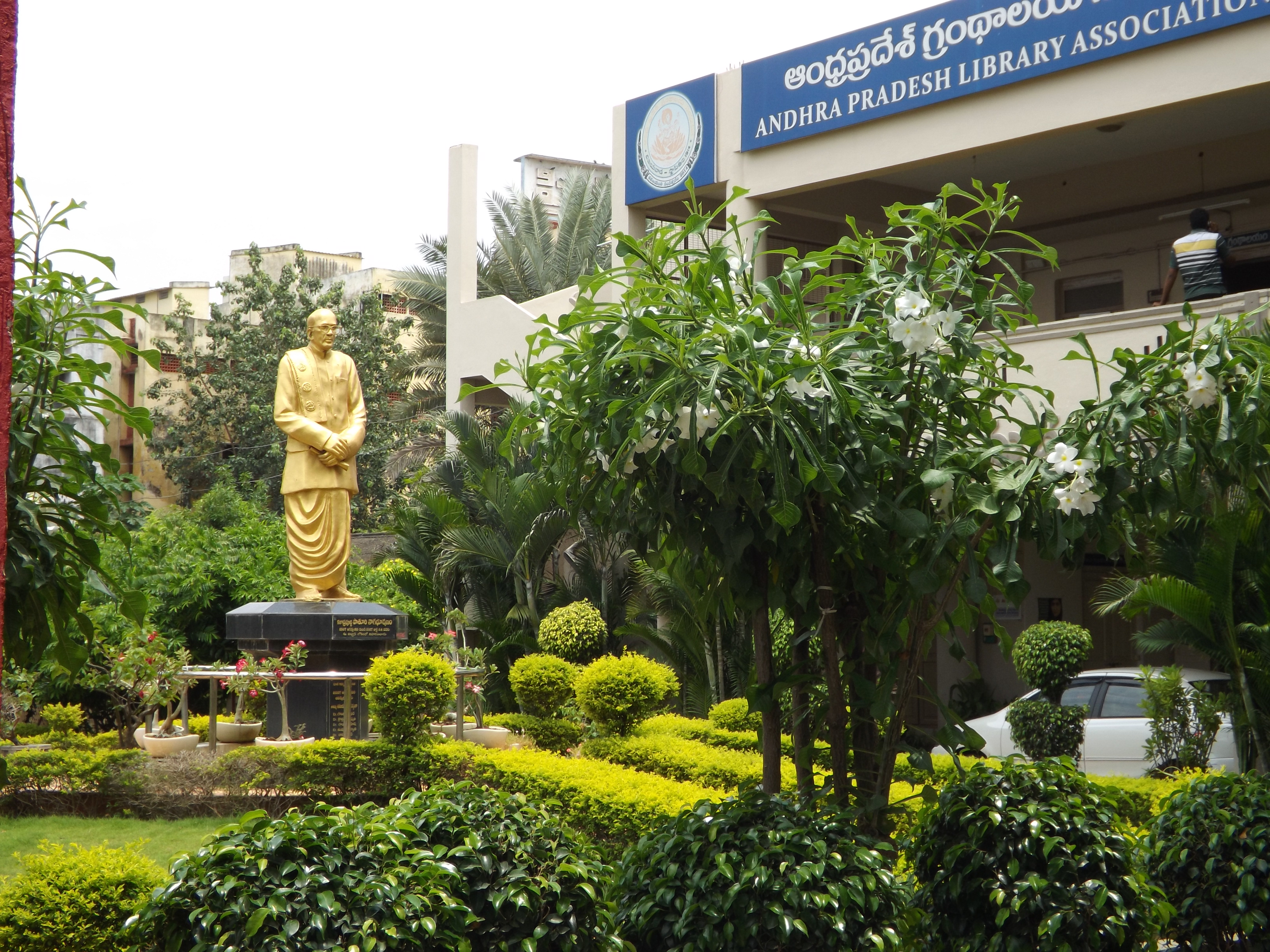 ఆంధ్రప్రదేశ్ గ్రంథాలయ సంఘం, శాఖా గ్రంథాలయ సంఘం, సర్వోత్తమ భవనం విజయవాడ